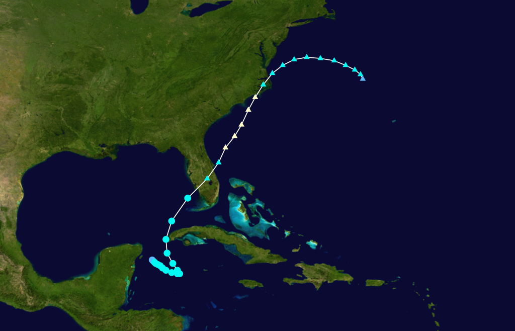 1925 Atlantic hurricane 4 track. Uses the color scheme from the Saffir-Simpson Hurricane Scale.